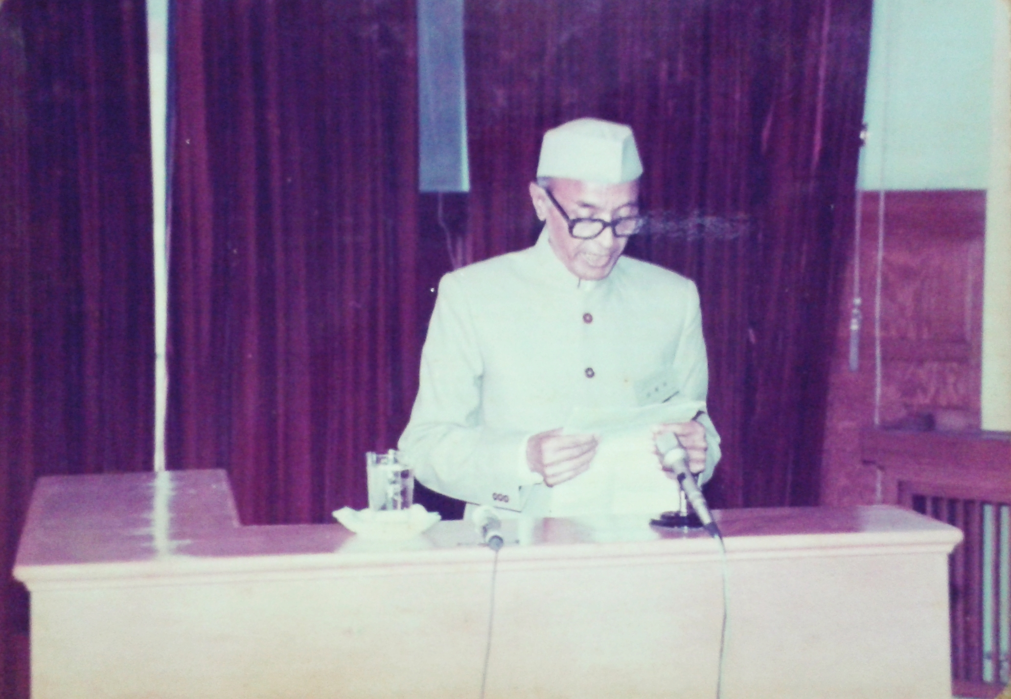 Baharul Islam giving speech at Gauhati High Court.